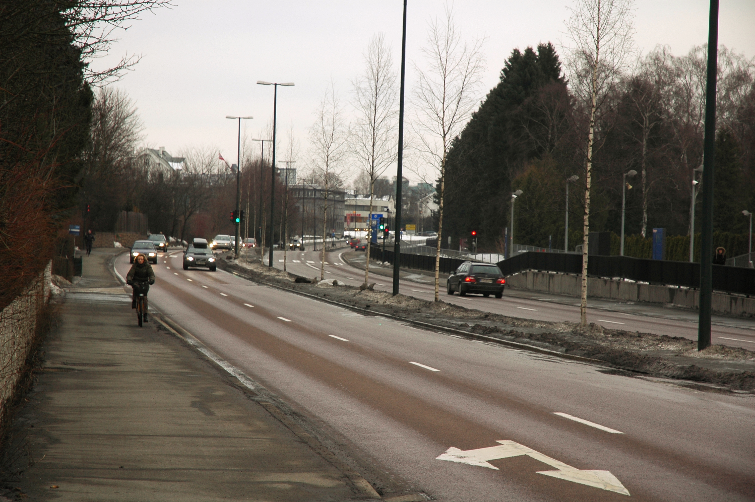 Sørkedalsveien (as Riksvei 168) in Oslo, Norway, near Borgen station looking toward Volvat.